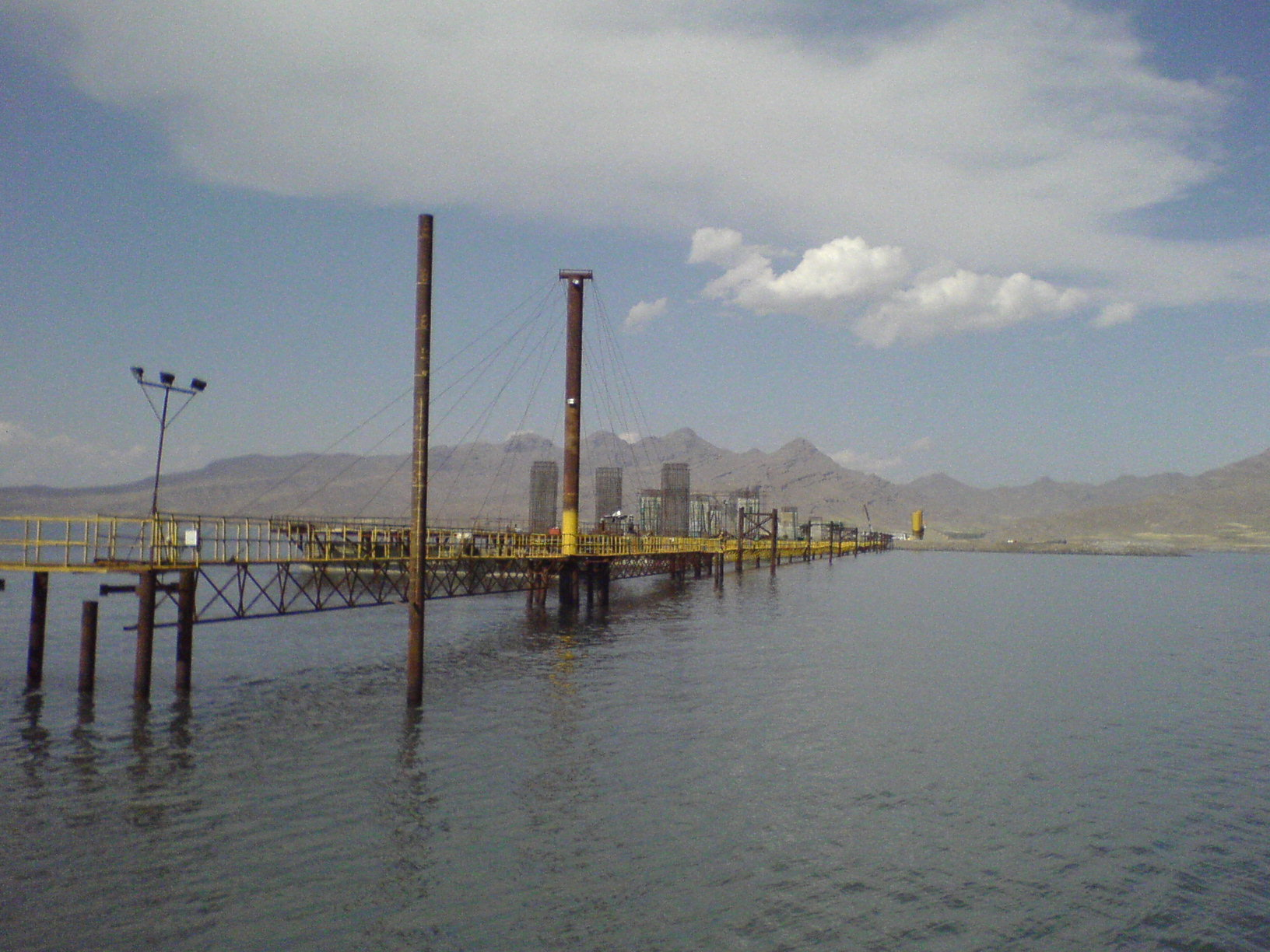 An under construction bridge on the middle of Urmia Lake in Iran. The mountains in the back are Shahi (Islamic island). It will be used for connecting West Azerbaijan to East Azerbaijan.